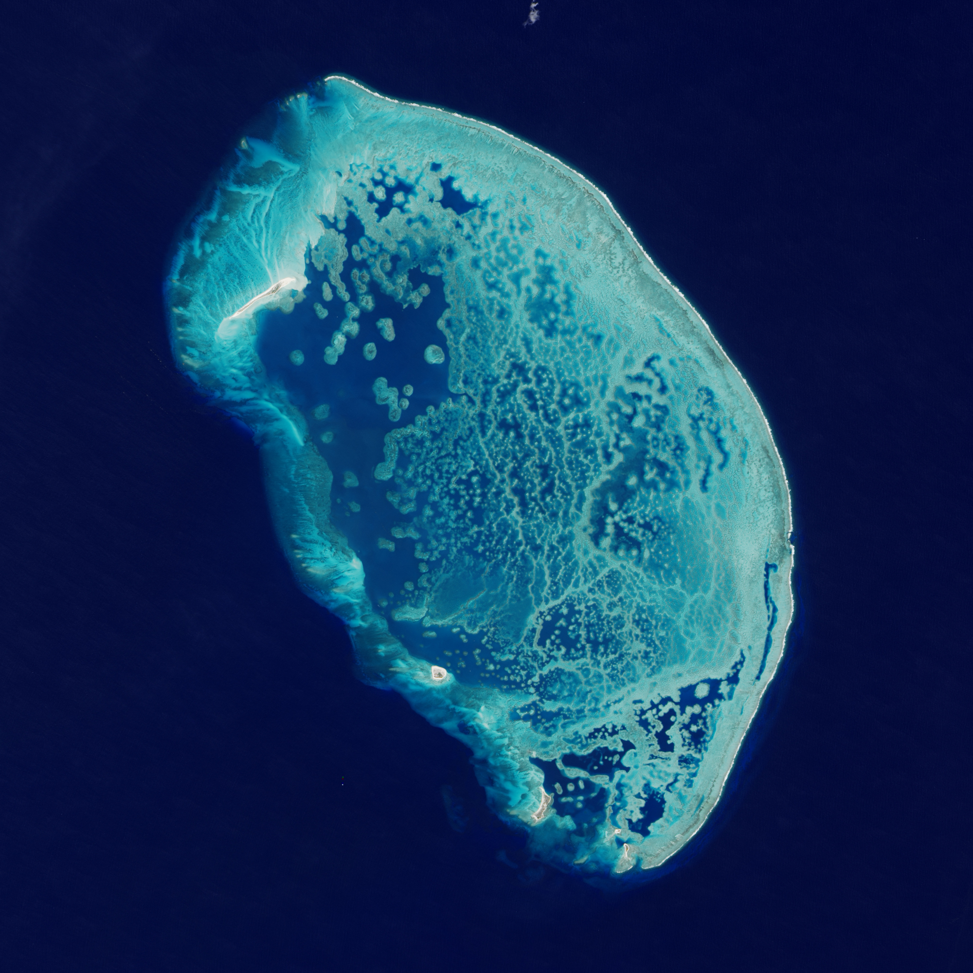 NASA satellites have helped scientists study creatures living in the oceans whether it's finding suitable waters for oysters or protecting the endangered blue whale. Scientists also use the data to learn more about one of the most vulnerable ecosystems on the planet – coral reefs. This image shows a large reef system on Arrecife Alacranes – Spanish for “Scorpion Reef” in the southern Gulf of Mexico. The image was acquired on November 5, 2014, by the Operational Land Imager (OLI) on Landsat 8.